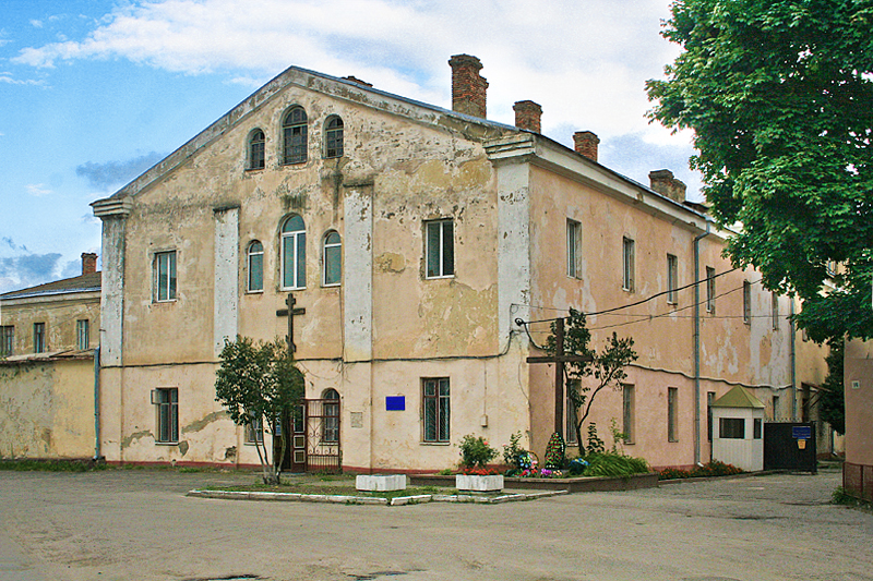 Bridgettines monastery in Lutsk